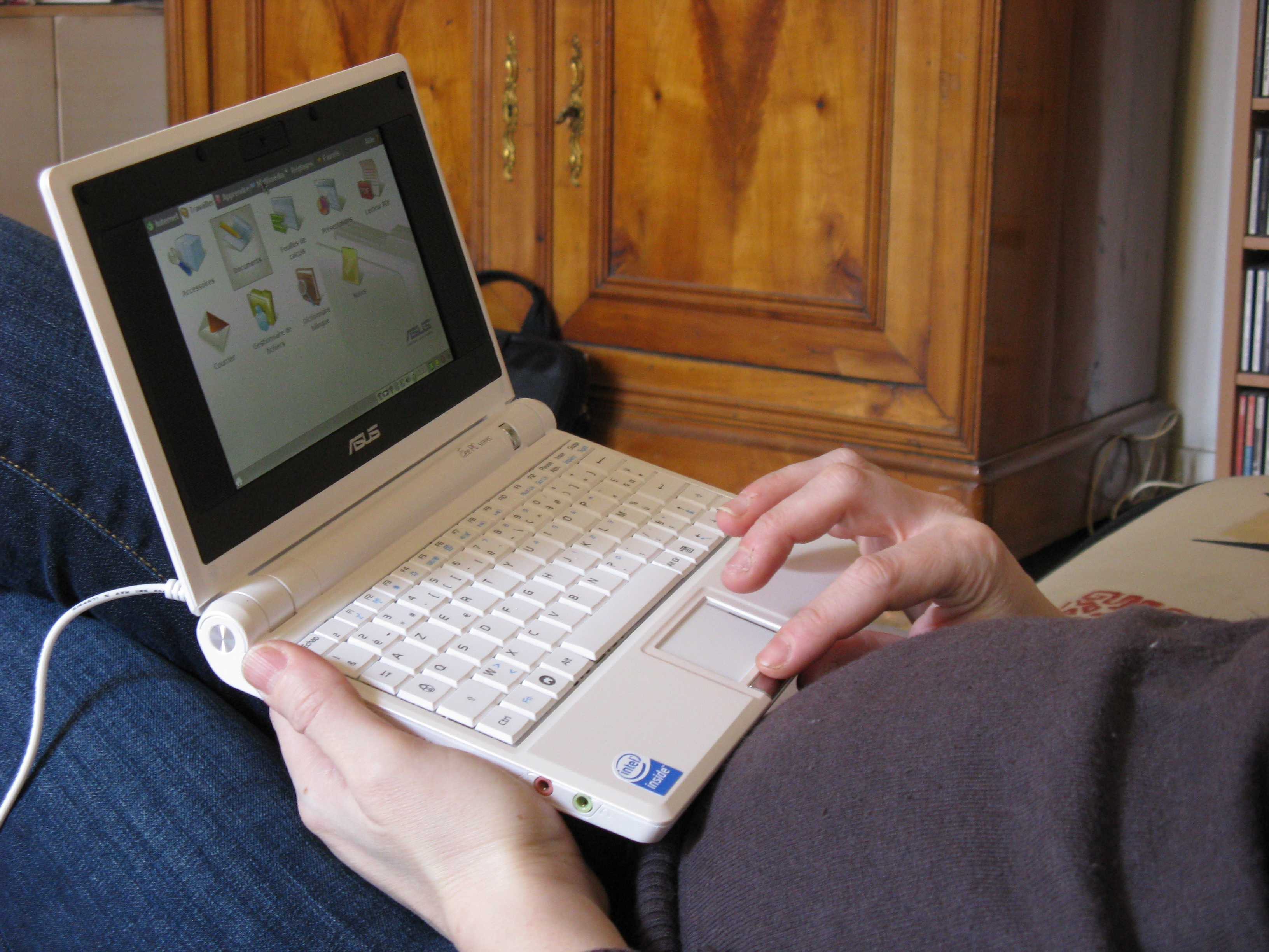 Asus EEE PC hands on